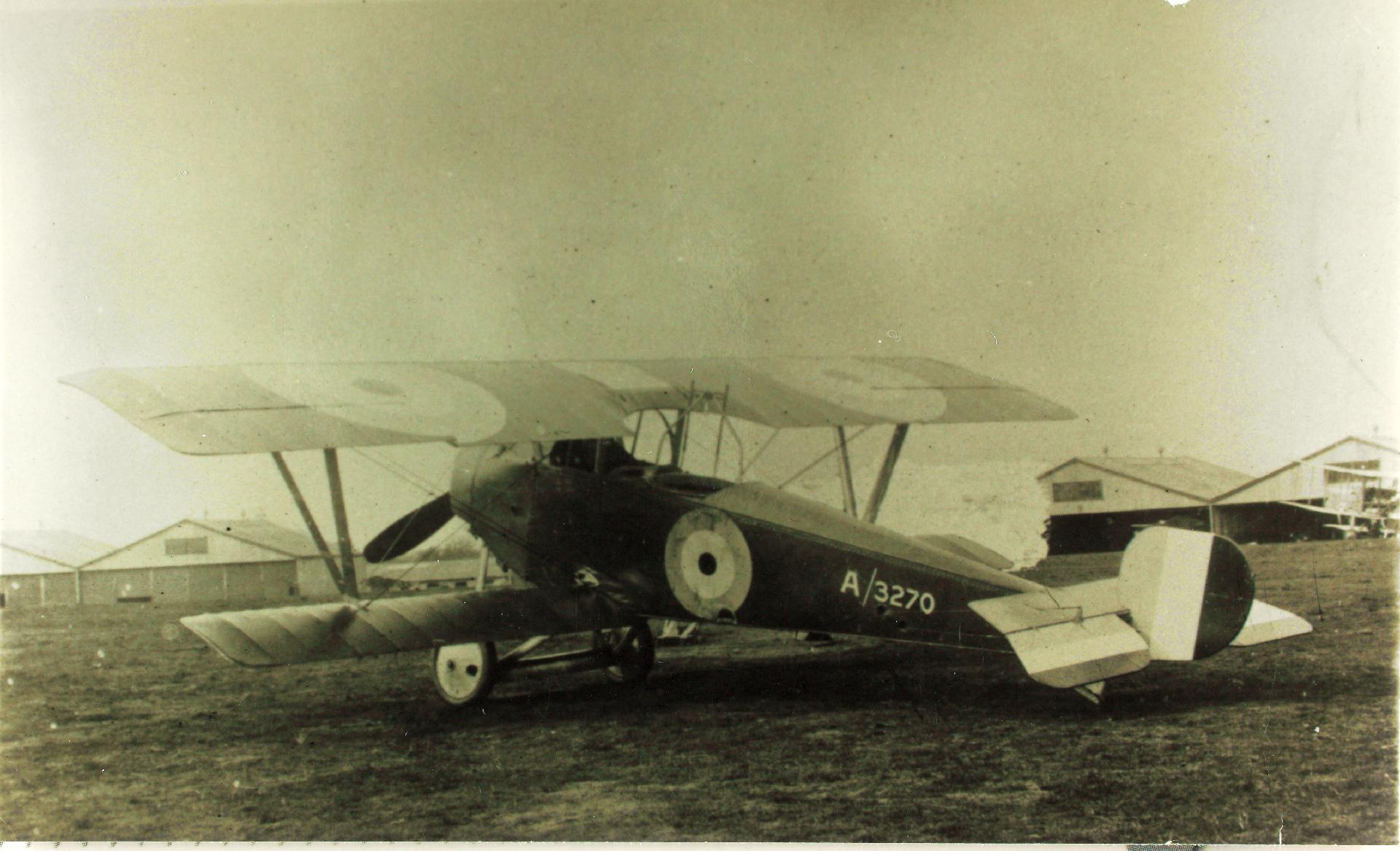 Nieuport 12 (Beardmore), produced under licence by Beardmore